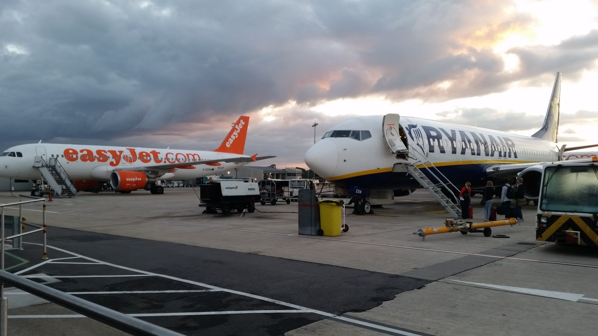 Two planes side by side at Bristol Airport